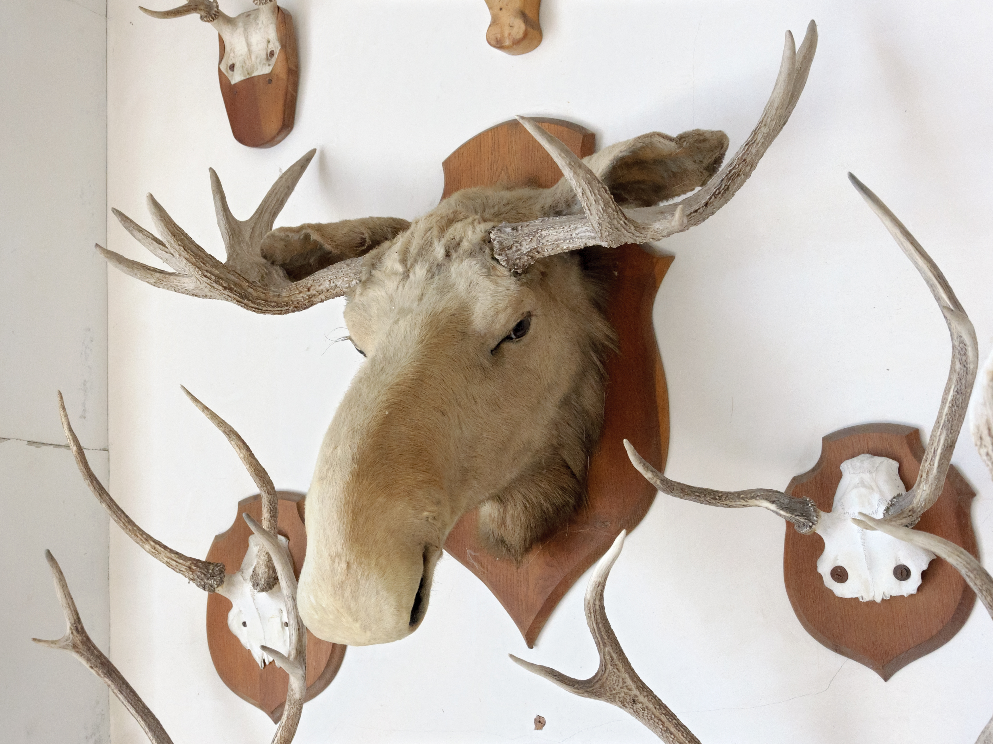 Elk head trophy in the Château de Tanlay, Yonne department, Burgundy, France.